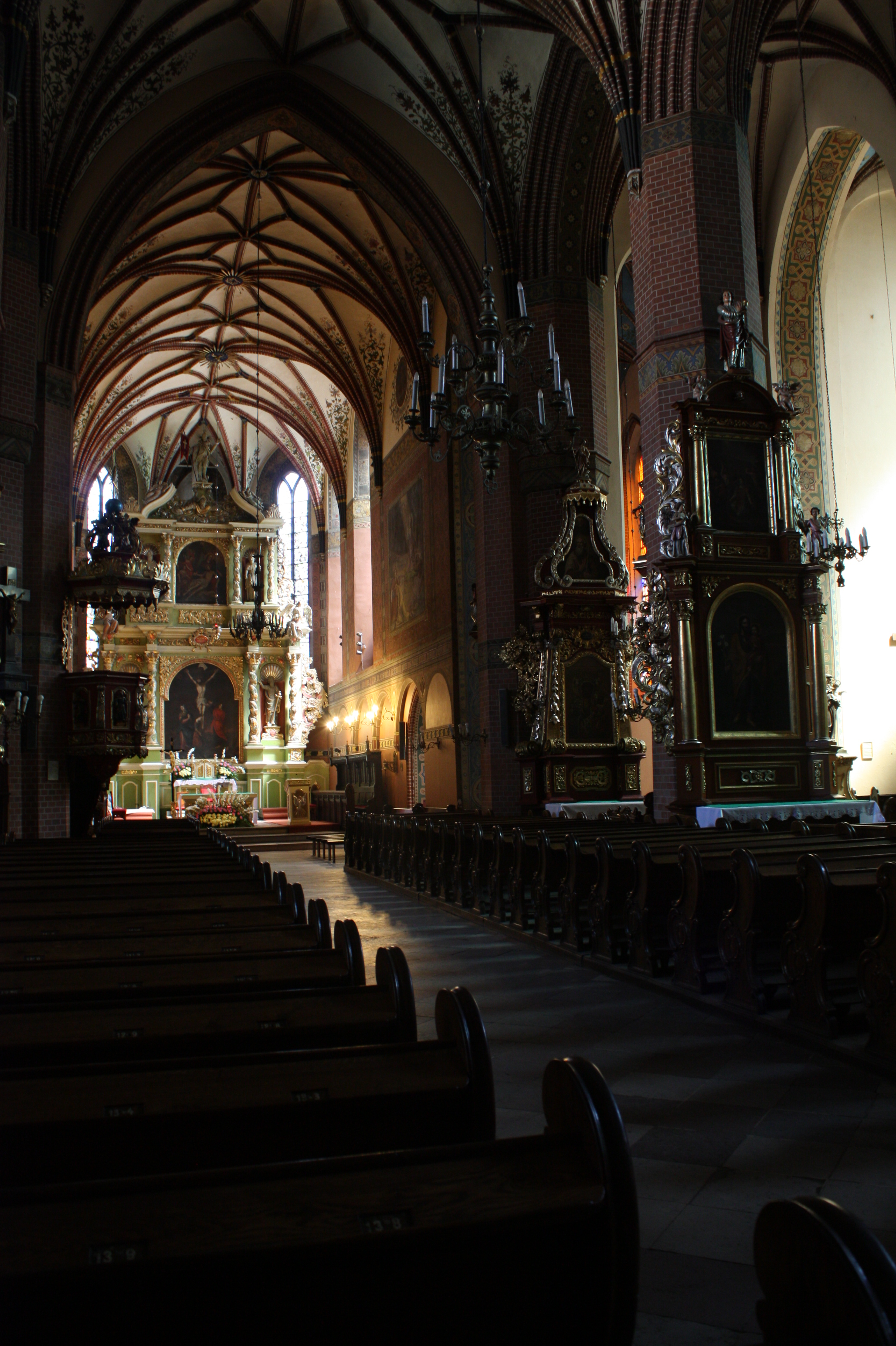 Tczew, Holy Cross Church, Interior